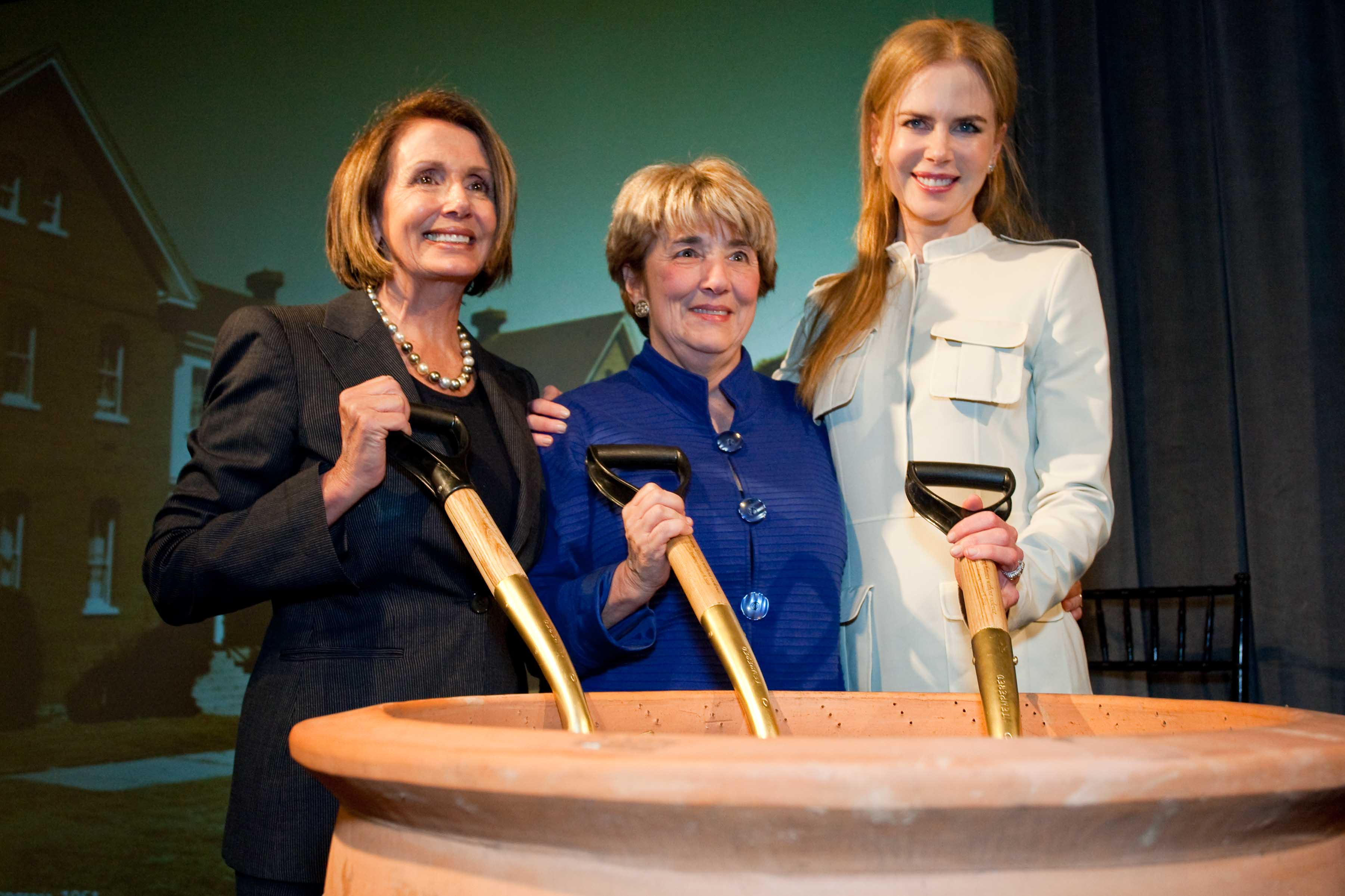 January 8, 2010 ~ Congresswoman Pelosi joins Esta Soler, the founder of the Family Violence Prevention Fund, and Nicole Kidman, UNIFEM Goodwill Ambassador, for the groundbreaking of the new International Center to End Violence in San Francisco.